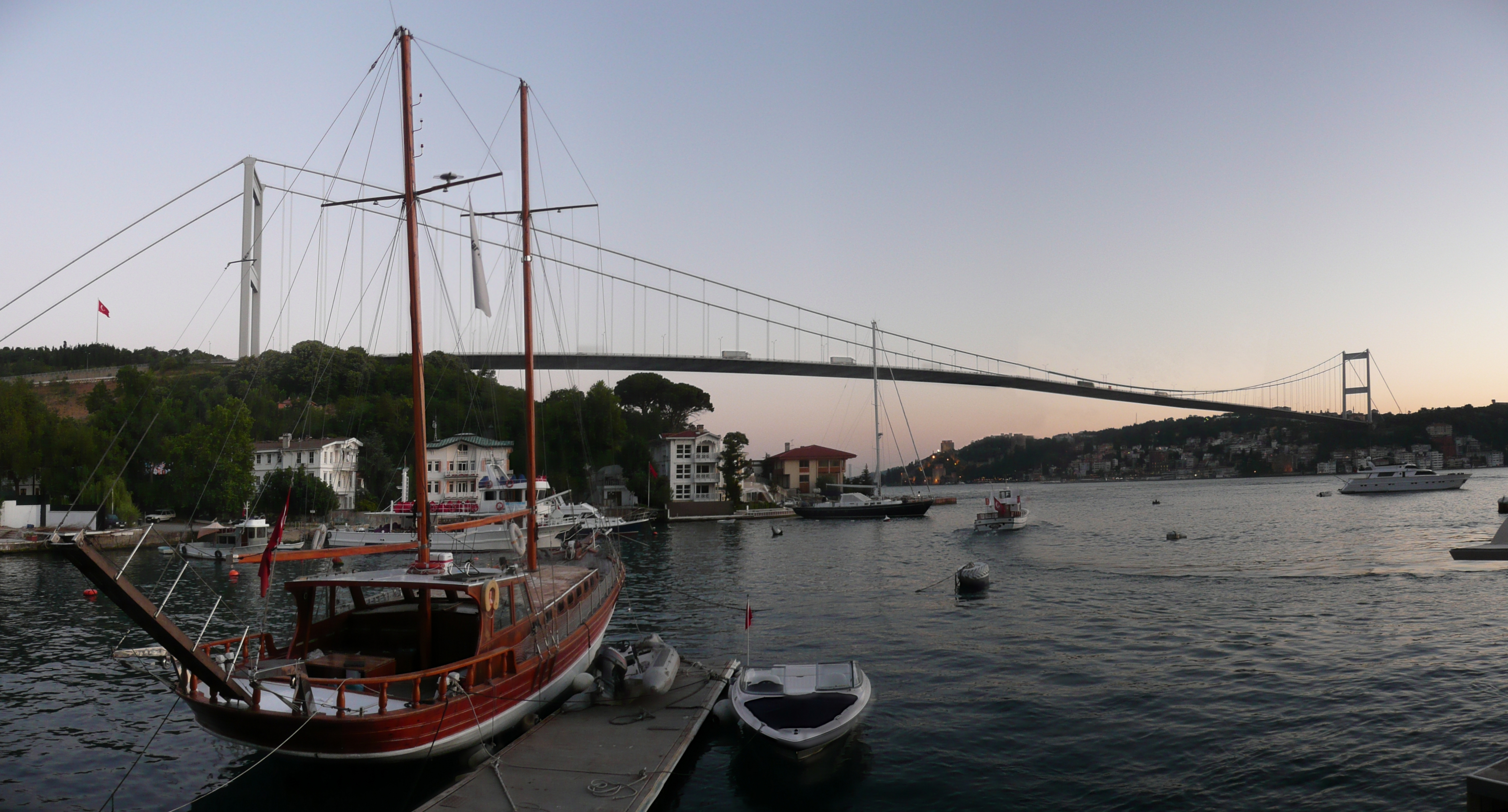 View from a restaurant at the Bosphorus towards the Fatih Sultan Mehmet Bridge in Istanbul.